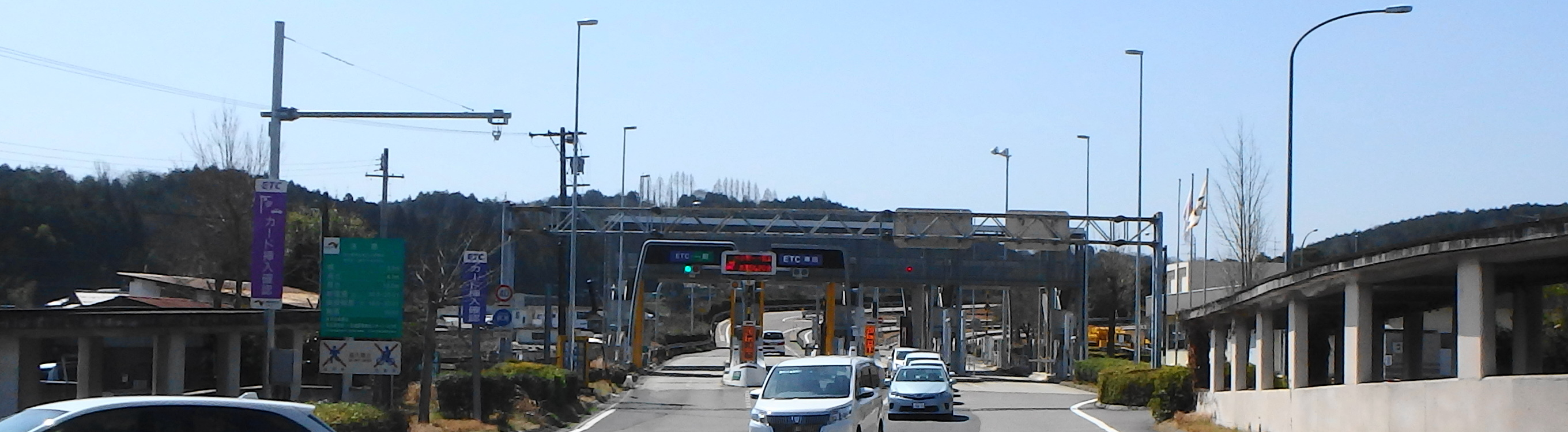 Ena Inter Change,Gifu prefecture,Japan